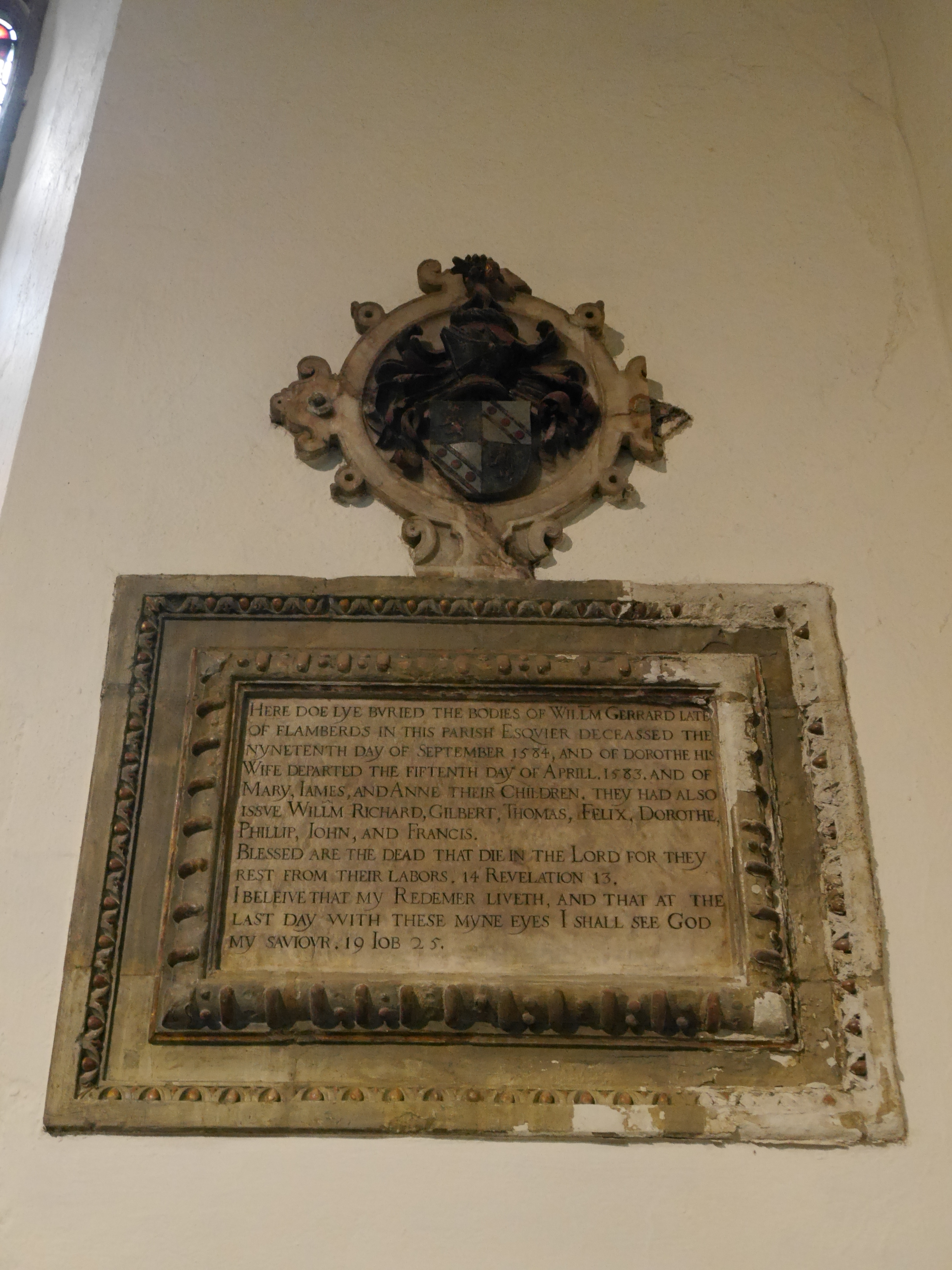 St Mary's, Harrow on the Hill, 2015